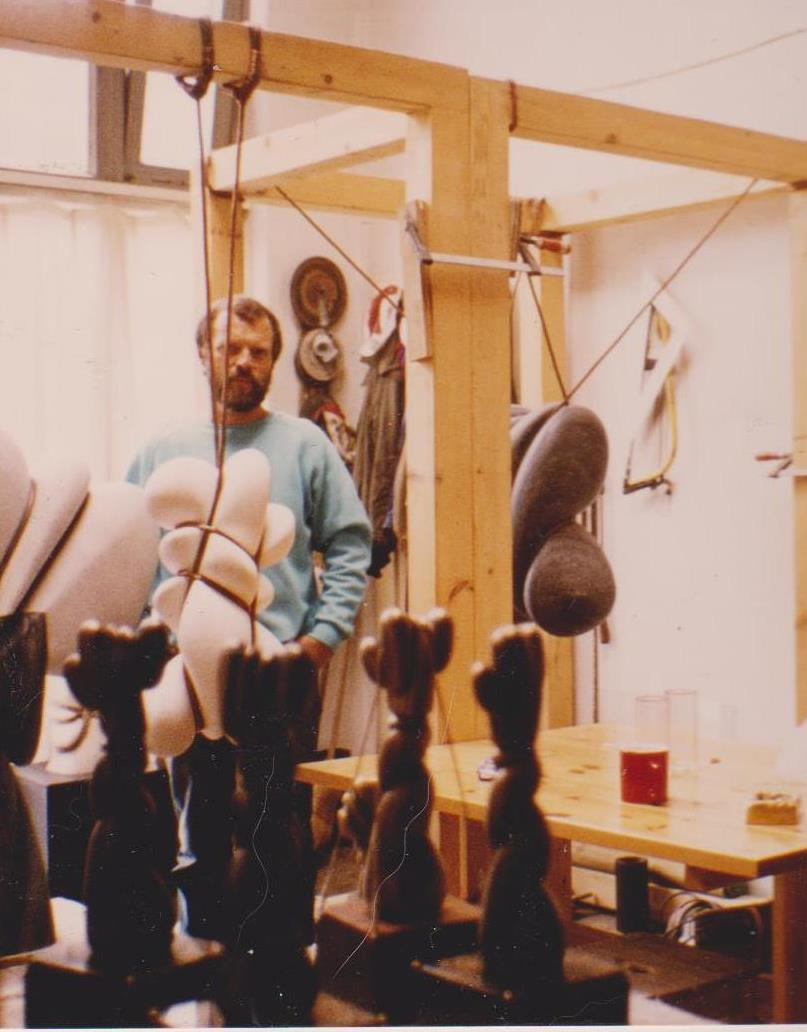 Austrian Sculptor Rudolf Moratti in his studio (July 20, 1986)